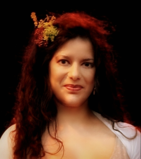 Cropped version of File:Sheila Chandra - The Imagined Village -The Big Chill 2008.jpg by User:Mark_with_the_mad_hair - Sheila Chandra at 'The Big Chill' 2008.